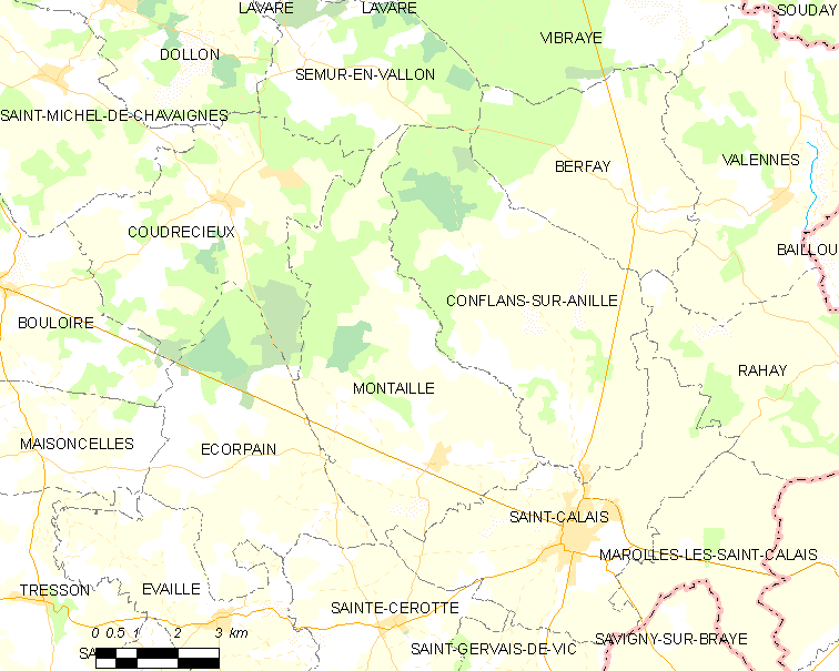 Map of French municipality